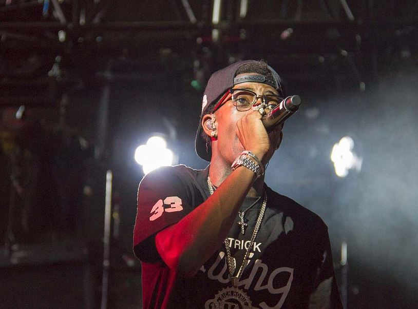 Rich Homie Quan performing during the 2014 Under The Influence tour.